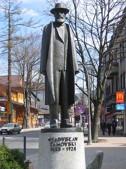 Władysław Zamoyski monument in Zakopane, Poland.